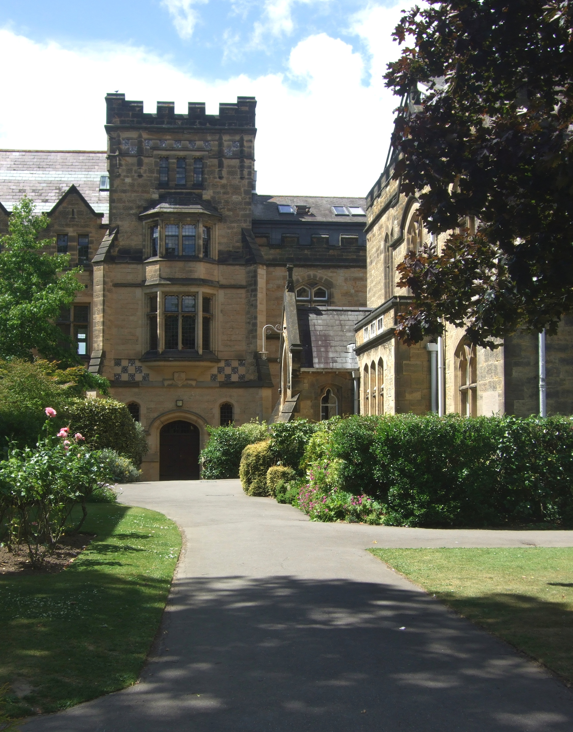 View of the front of Tonbridge School in 2008